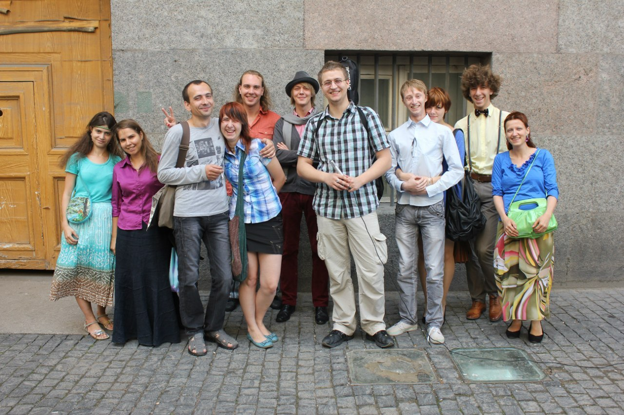 Участники в Питере